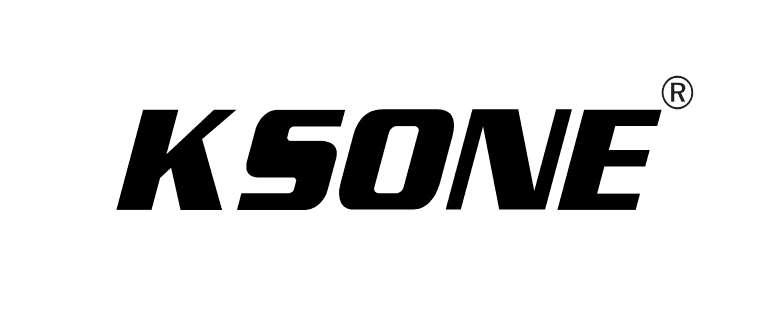 The trademark registered in July 29th, 2016 by Zhuhai Fayyou Sports Co., Ltd.